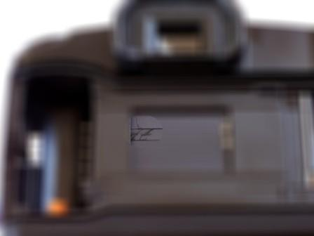 Sticky shutter caused by disintegration of internal seal, highlighted here on a Canon EOS 100. For the full picture, see . A common problem with older Canon SLR film cameras.